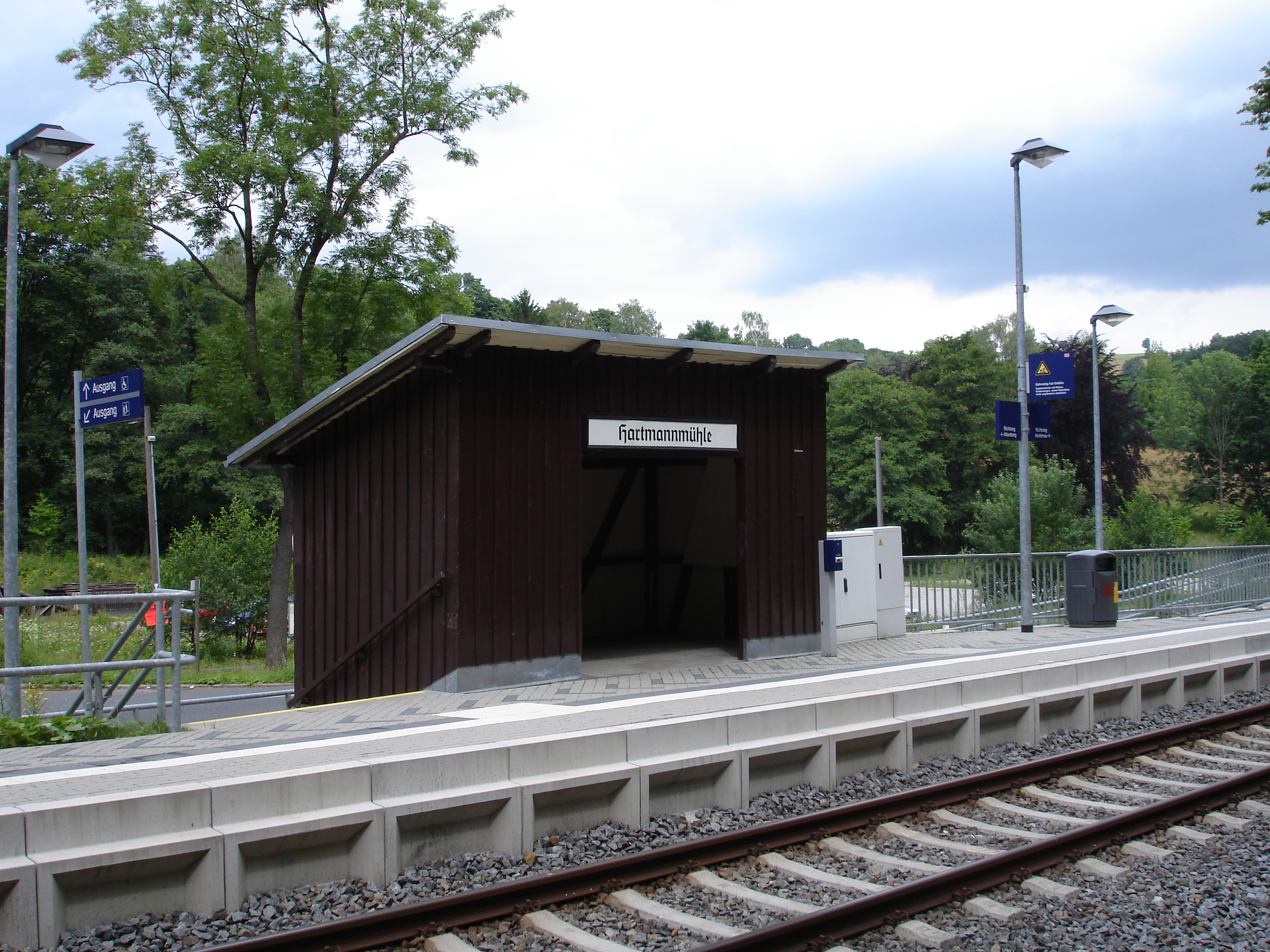 station Hartmannmühle, Müglitztalbahn, Saxony, Germany